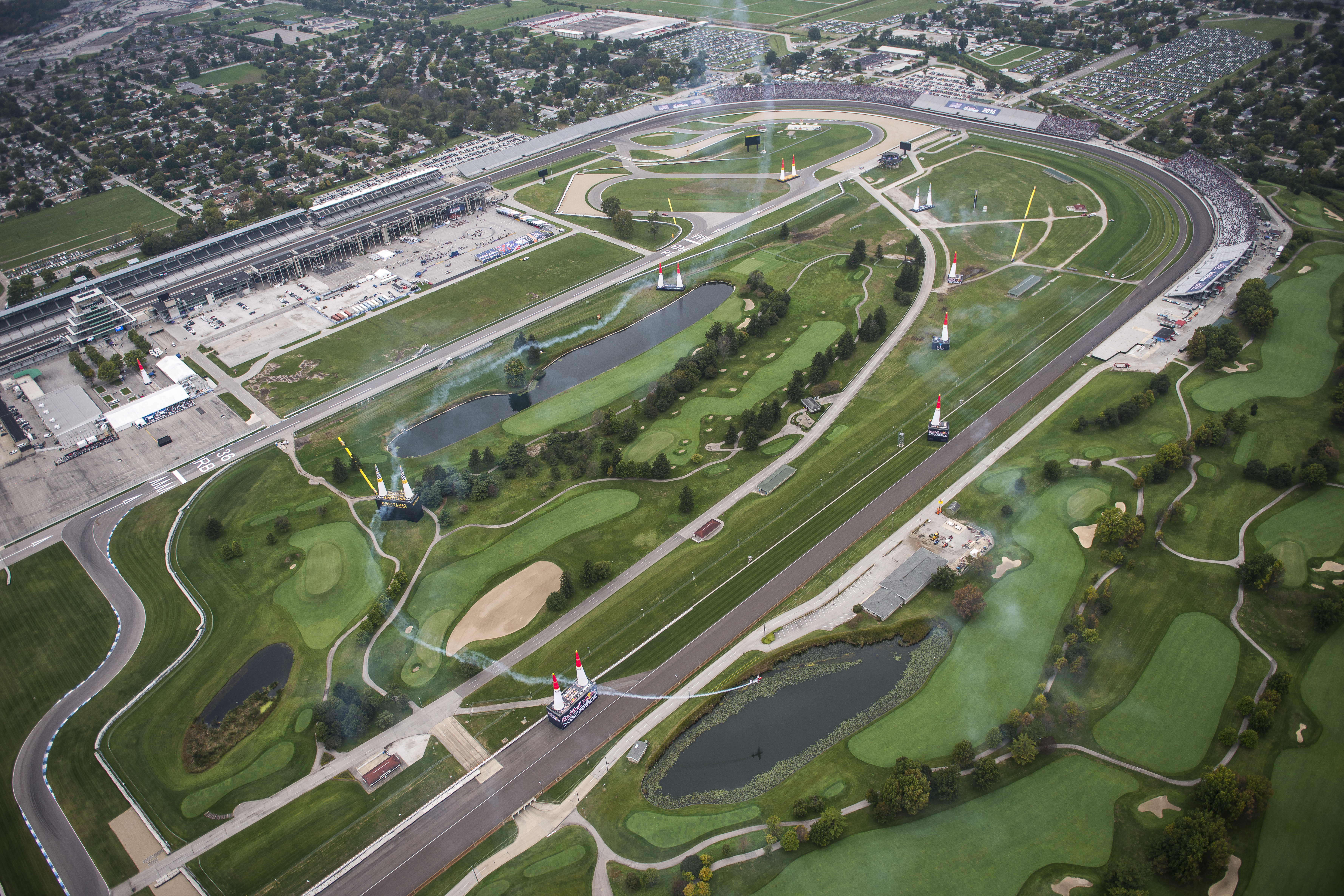 Peter Podlunsek of Slovenia performs during the finals at the seventh stage of the Red Bull Air Race World Championship at Indianapolis Motor Speedway, Indianapolis, Indiana, United States on October 2, 2016. // Joerg Mitter / Red Bull Content Pool // P-20161002-02831 // Usage for editorial use only // Please go to for further information. //